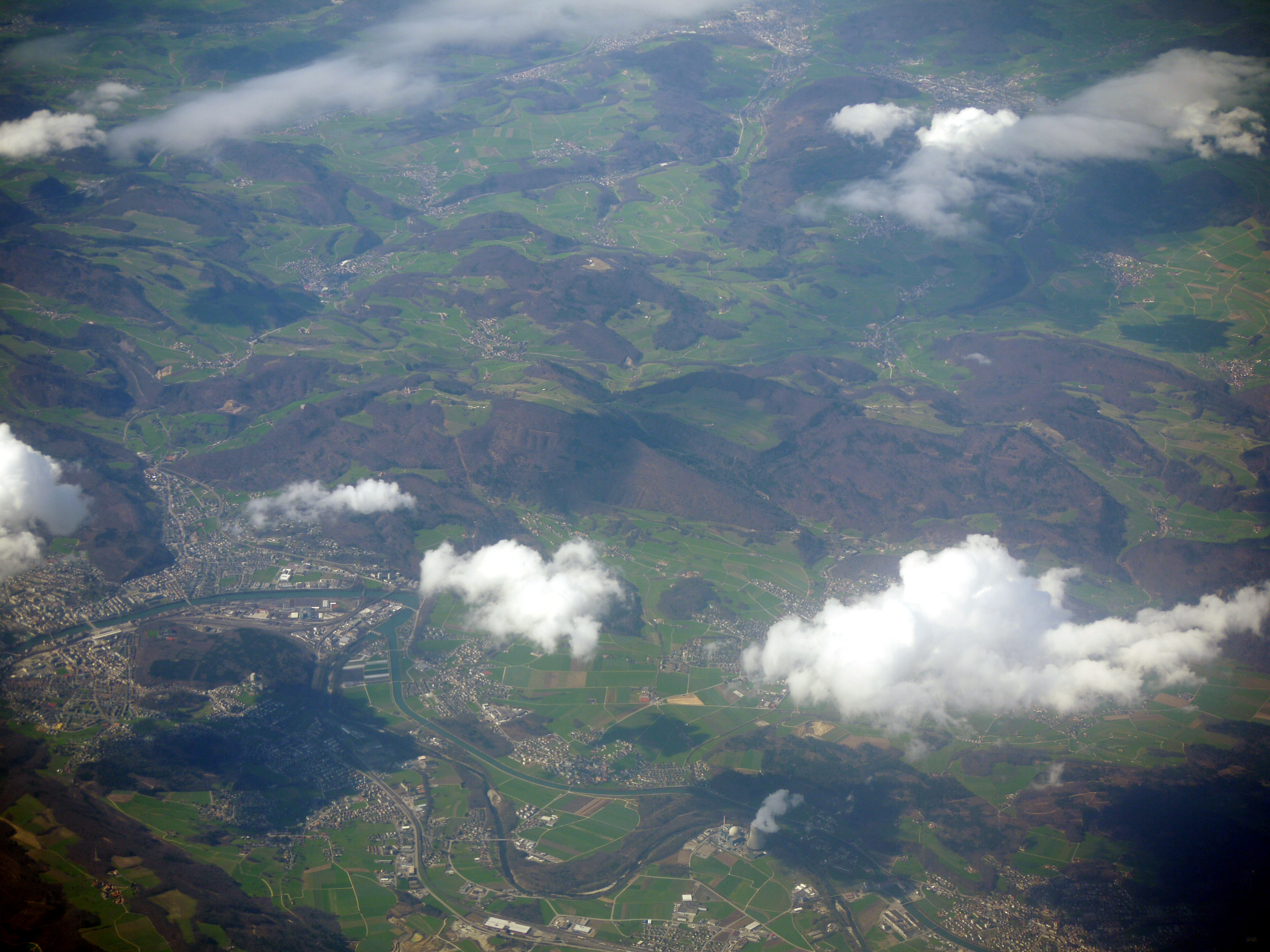 Winznau, photograph taken from the sky, on the fly line between Marseille and Stockholm.